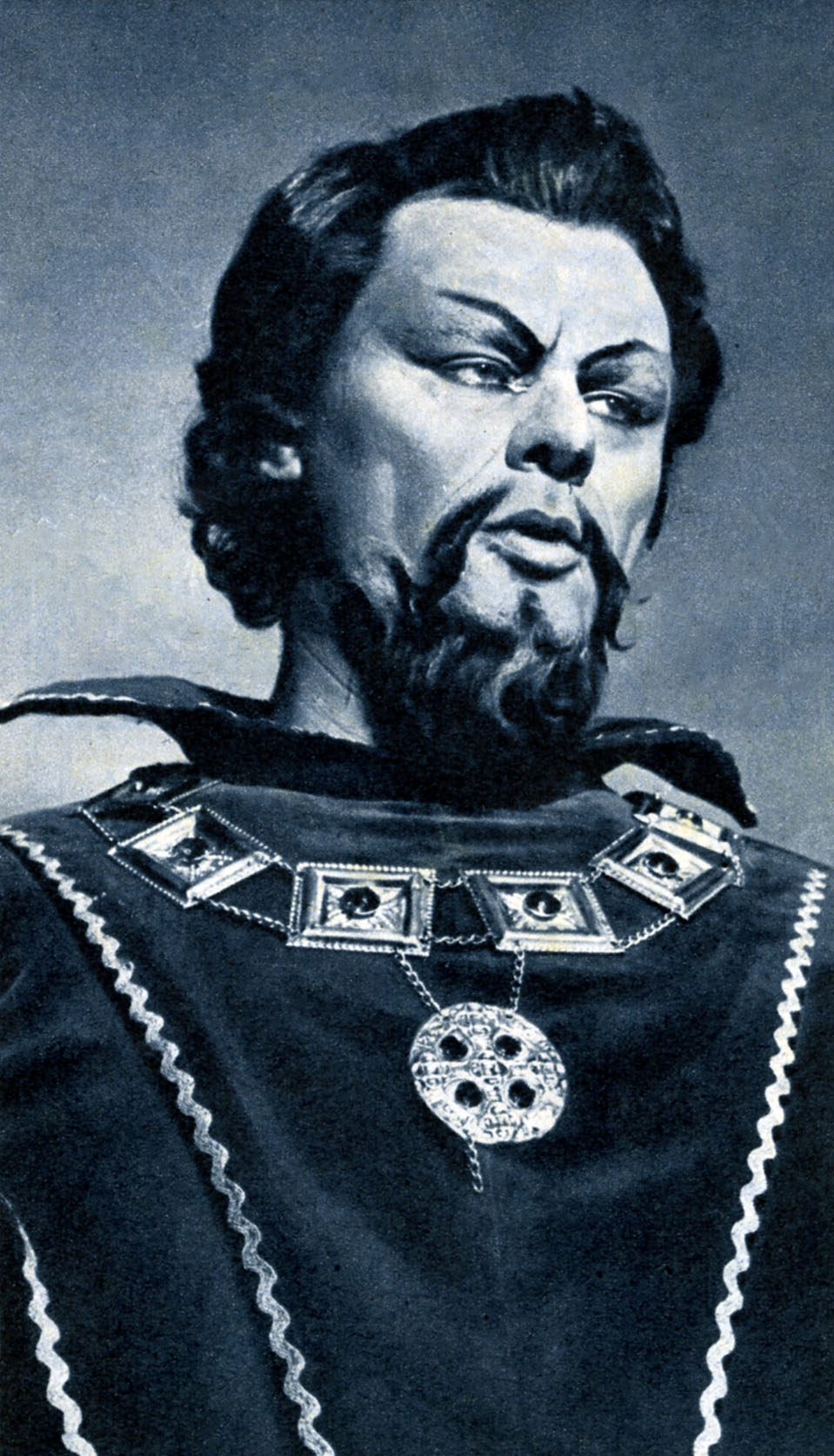 photo from the magazine Radiocorriere (1955)